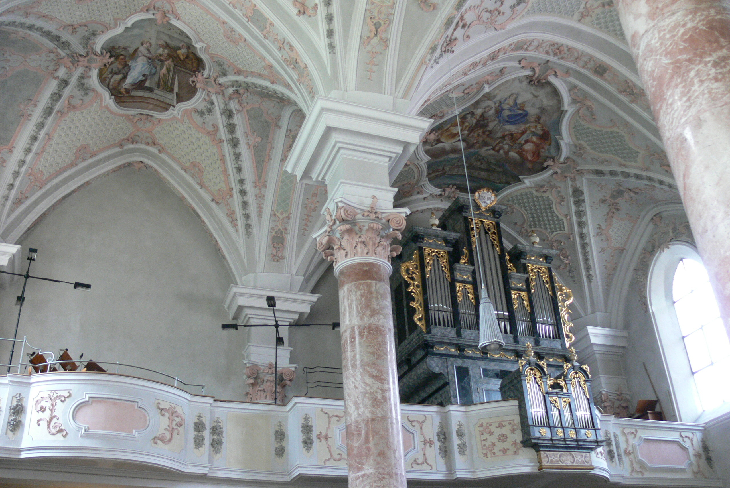 Rattenberg ( Tyrol ). Saint Virgil parish church: Church gallery with pipe organ.